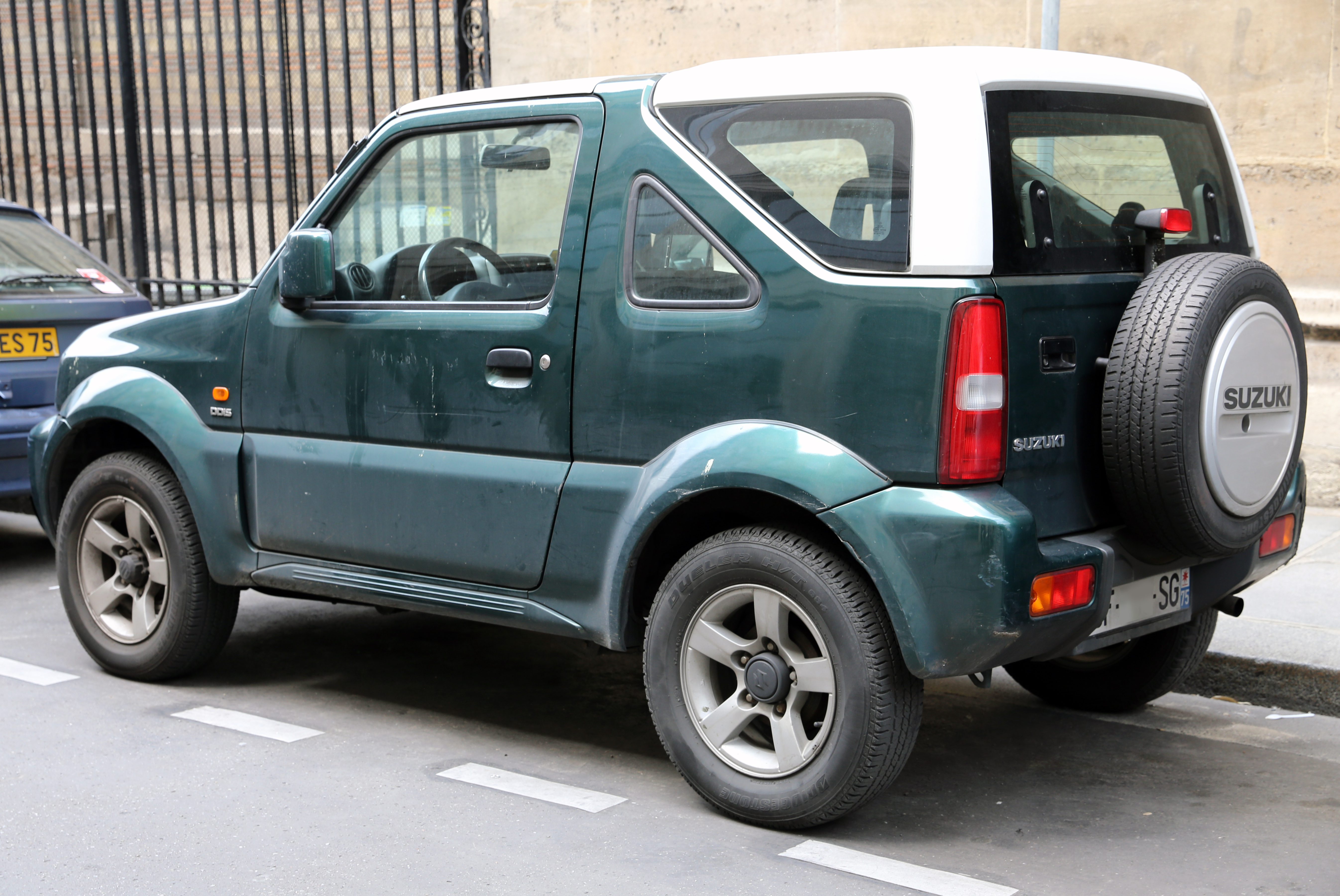 2006-2009 Suzuki Jimny JB53 DDiS Canvas Top, a diesel version mainly for European markets. Built by Spanish Santana Motors.